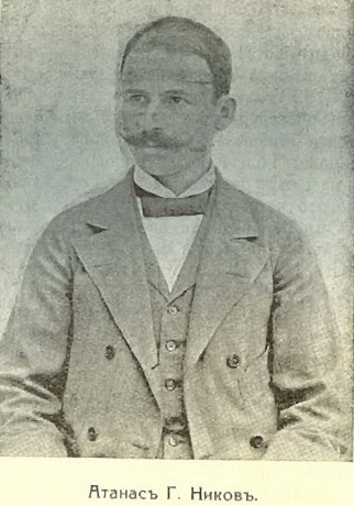 Bulgarian revolutionary Atanas Nikov from Gorno Brodi, (Ano Vrontou) Greece